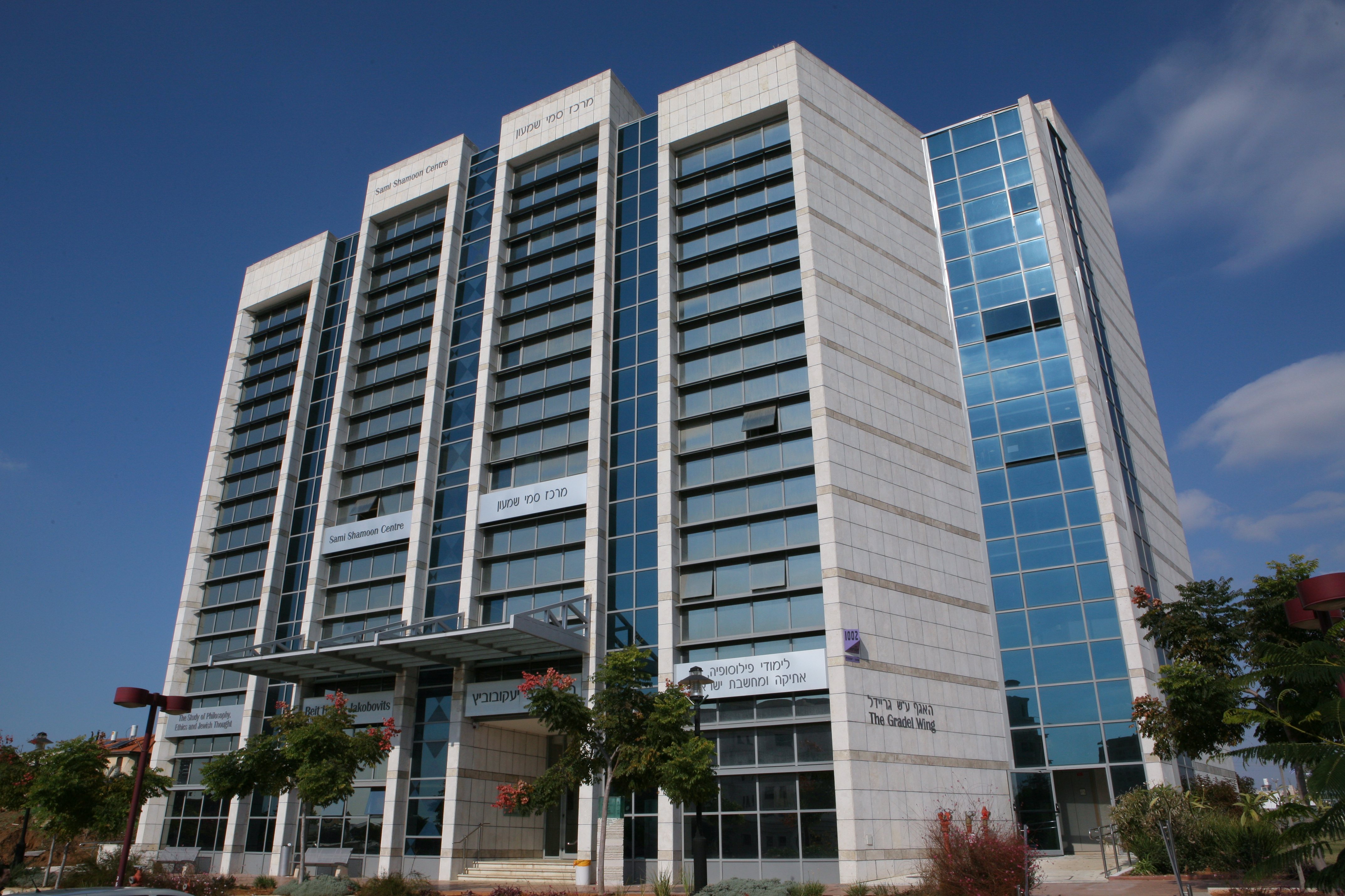 BEIT HARAV JAKOBOVITS – THE SHAMOON CENTRE FOR THE STUDY OF PHILOSOPHY ETHICS AND JEWISH THOUGHT